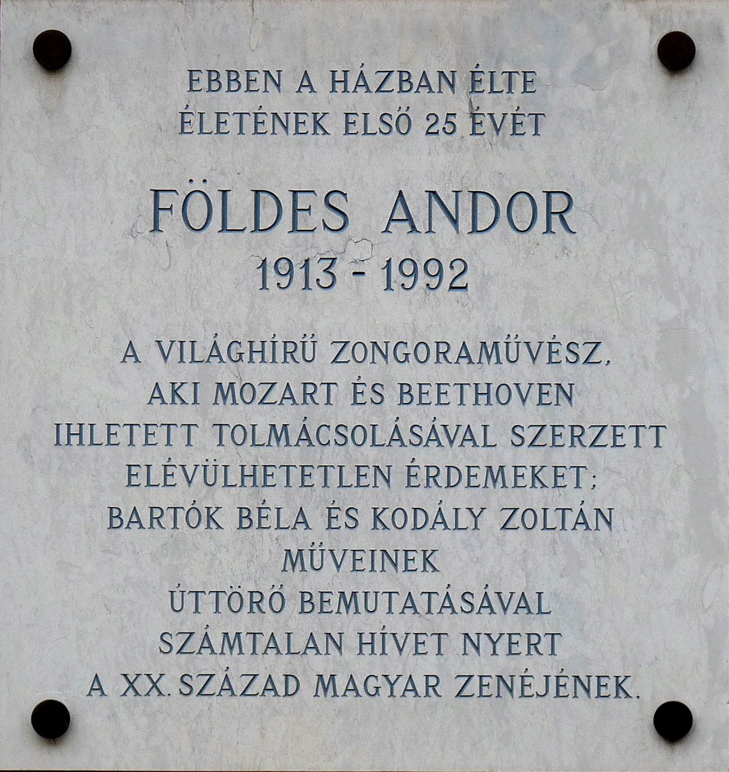 Andor Földes commemorative plaque in Budapest District III, Föld Street No 50/a.